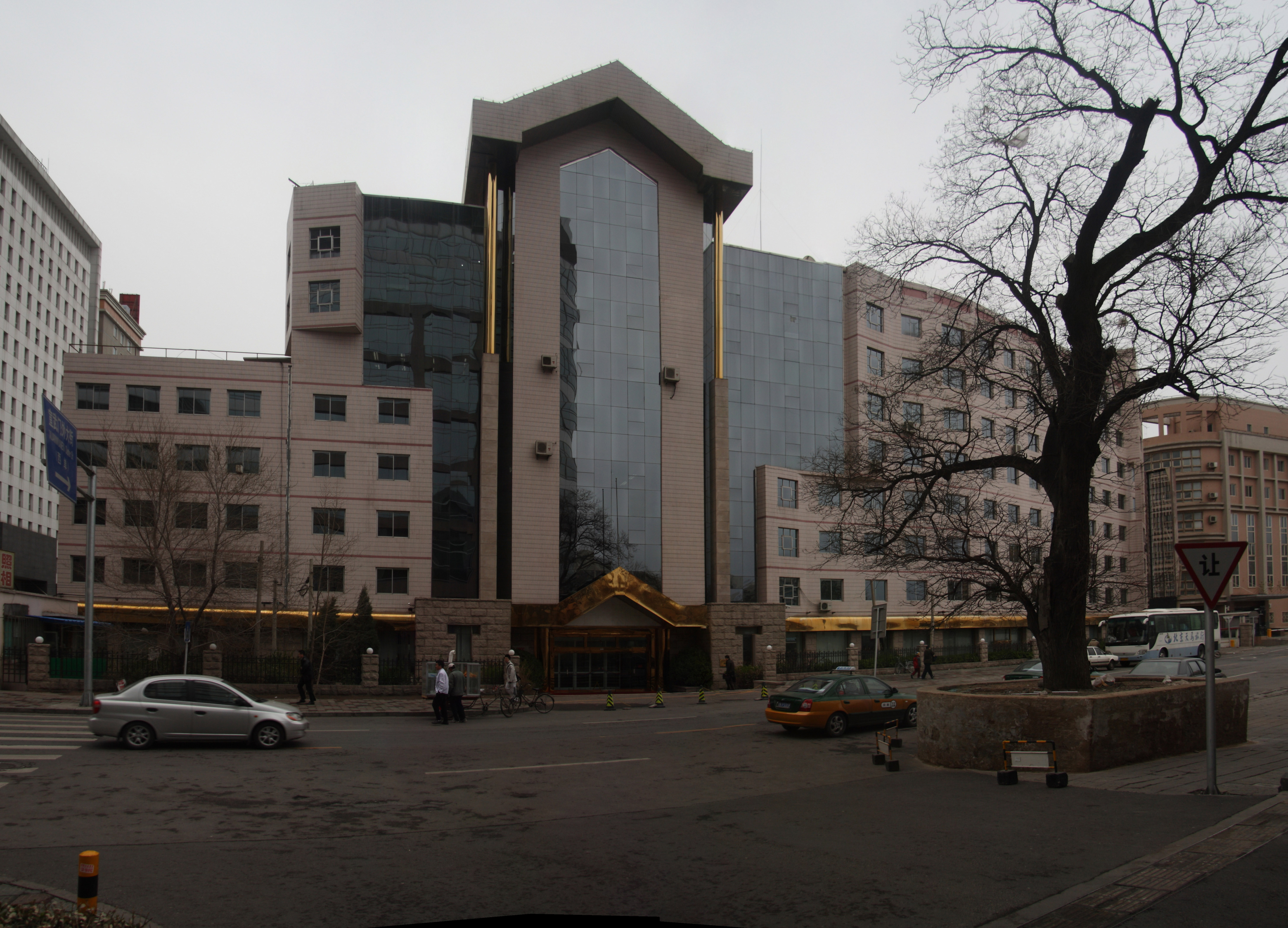 PICC main office